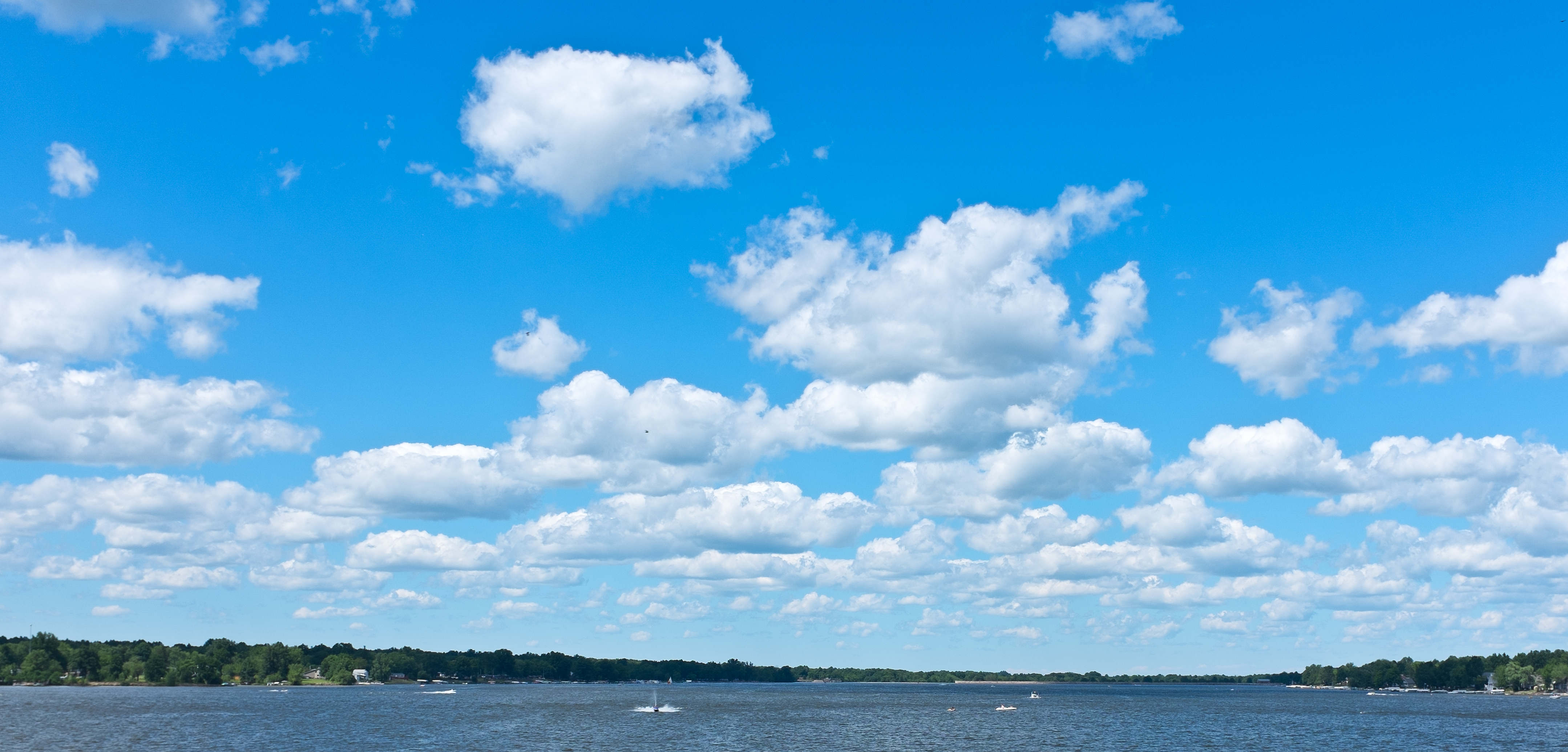 Lake Milton, and artificial lake, in Lake Milton Township, Mahoning County, Ohio